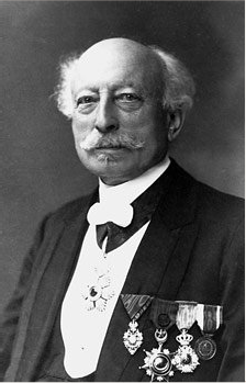 Ludwig Moser, glassmaker from Karlovy Vary